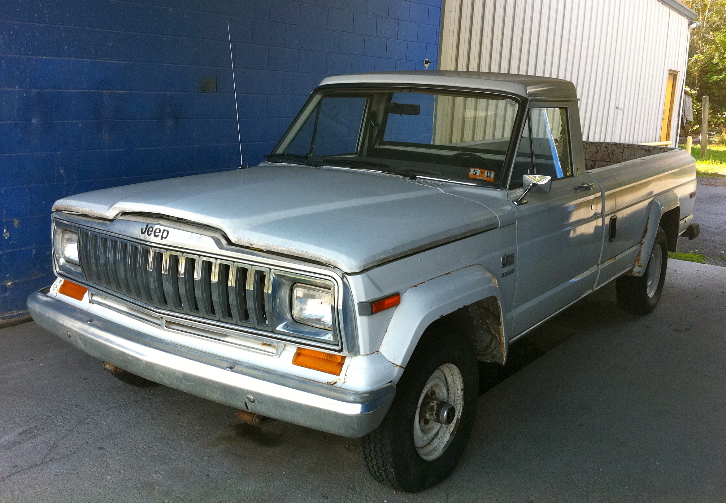 1983 Jeep J-10 model pickup truck built by American Motors Corporation (AMC) in Toledo, Ohio. Front left view. This vehicle has 131-inch (3353 mm) wheelbase and 8-foot load bed. It is powered by AMC's 360 cubic inch (5.9 L) V8 engine mated to a column-mounted three-speed automatic transmission with standard (part-time) four-wheel-drive. Photographed near Princeton, West Virginia.